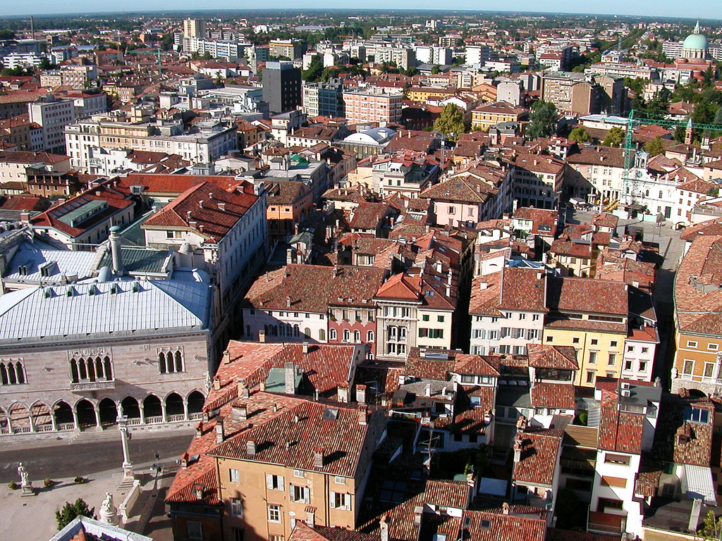 Udine panorama south west